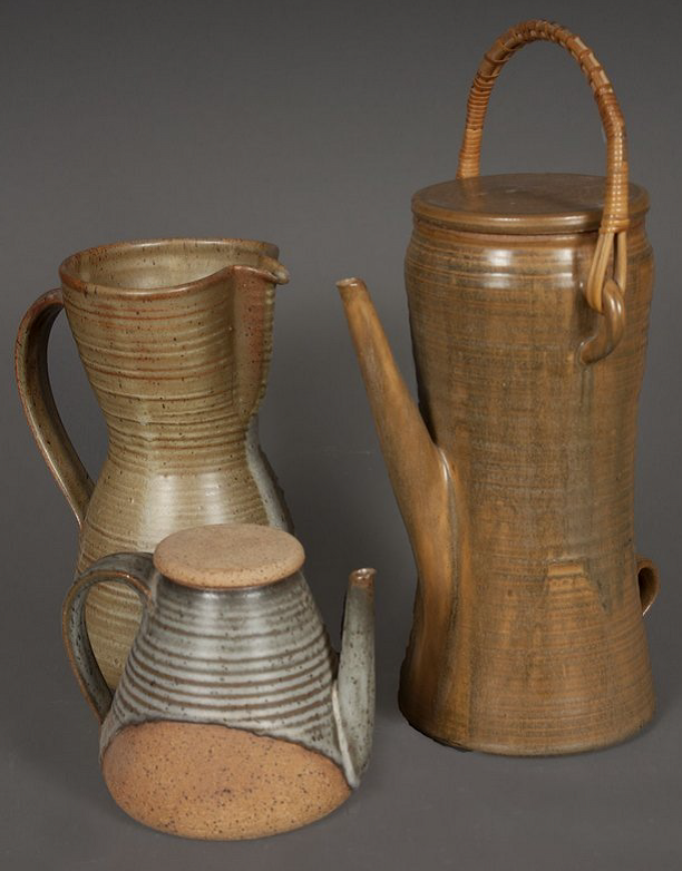 Pitcher, Coffee Pot, and Teapot, Don Reitz, 1962. Glazed stoneware. Varied dimensions Belger Collection